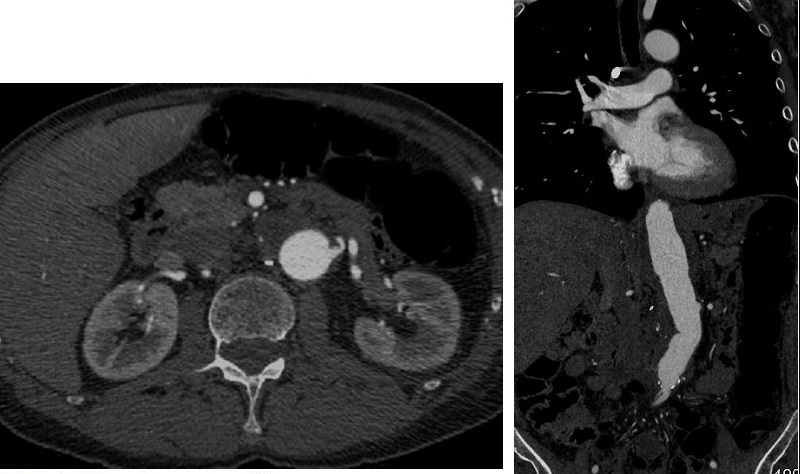 Abdominal CT angiography. For context, see Computed tomography of the abdomen and pelvis.